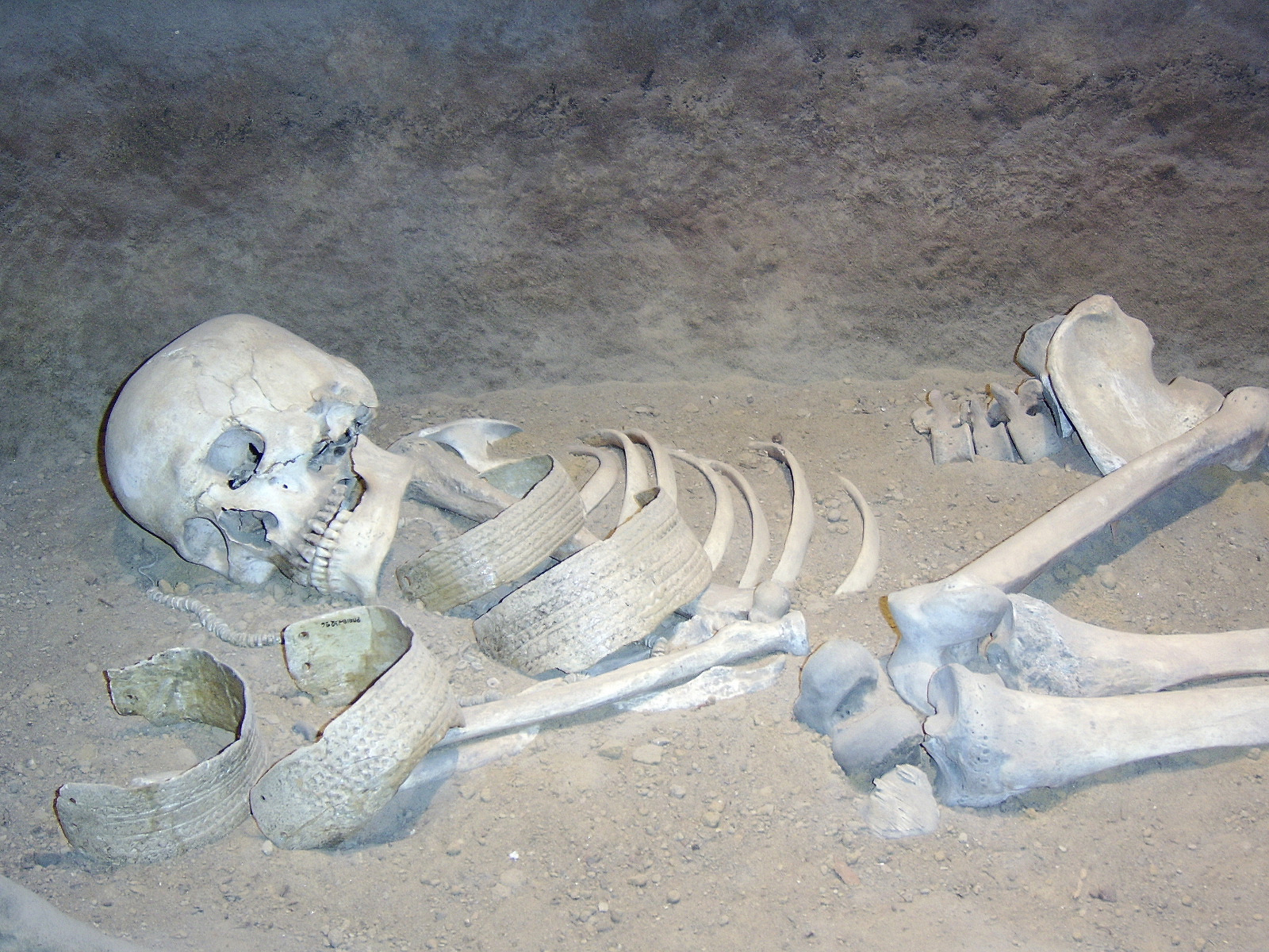 Women skeleton in the Biskupim muzeum. Three grave were found near the longhouse. One belonged to 35-year-old woman who had lived in the house.